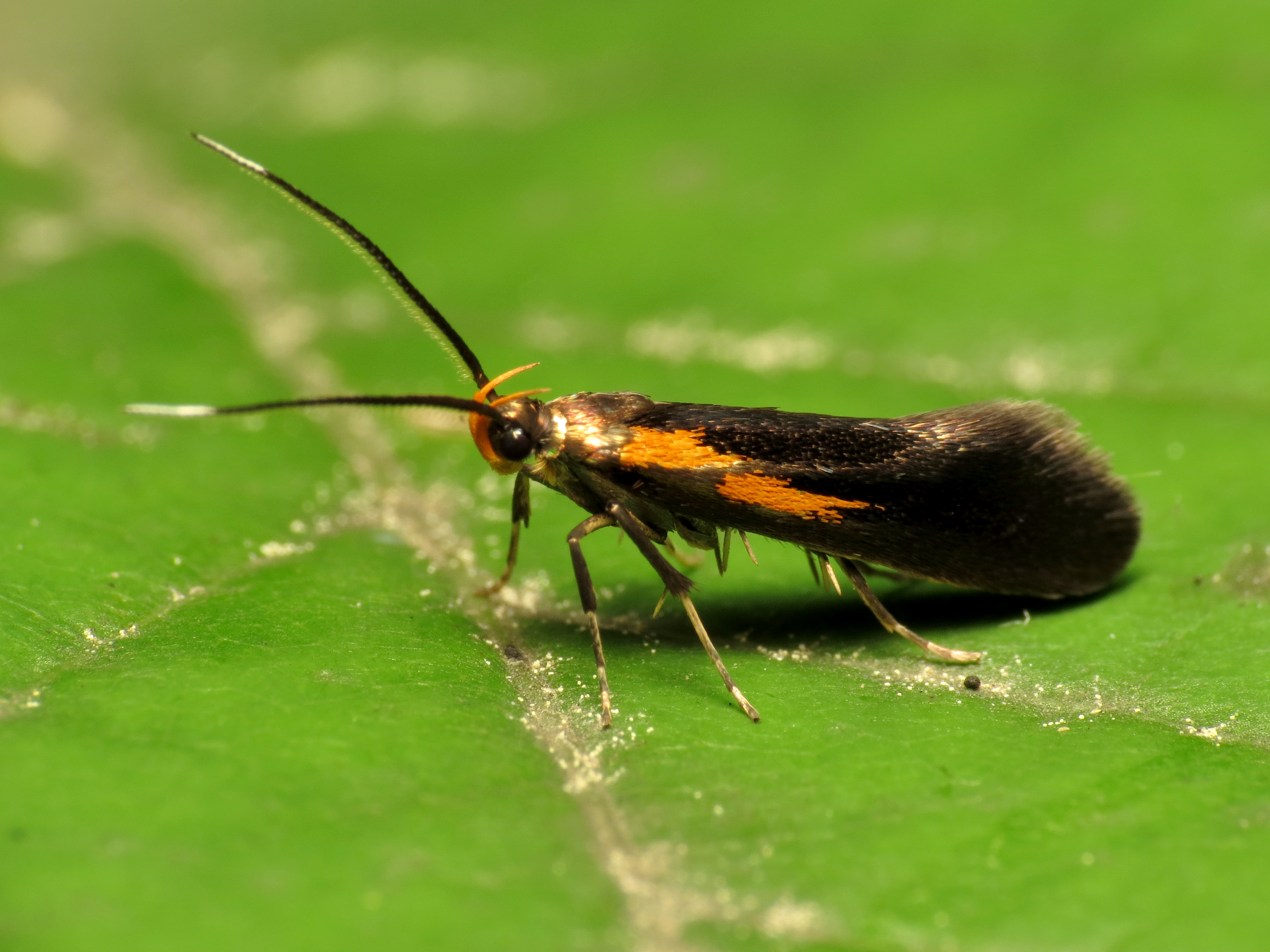 Mathildana newmanella. Rock Creek Park, Washington, DC, USA.